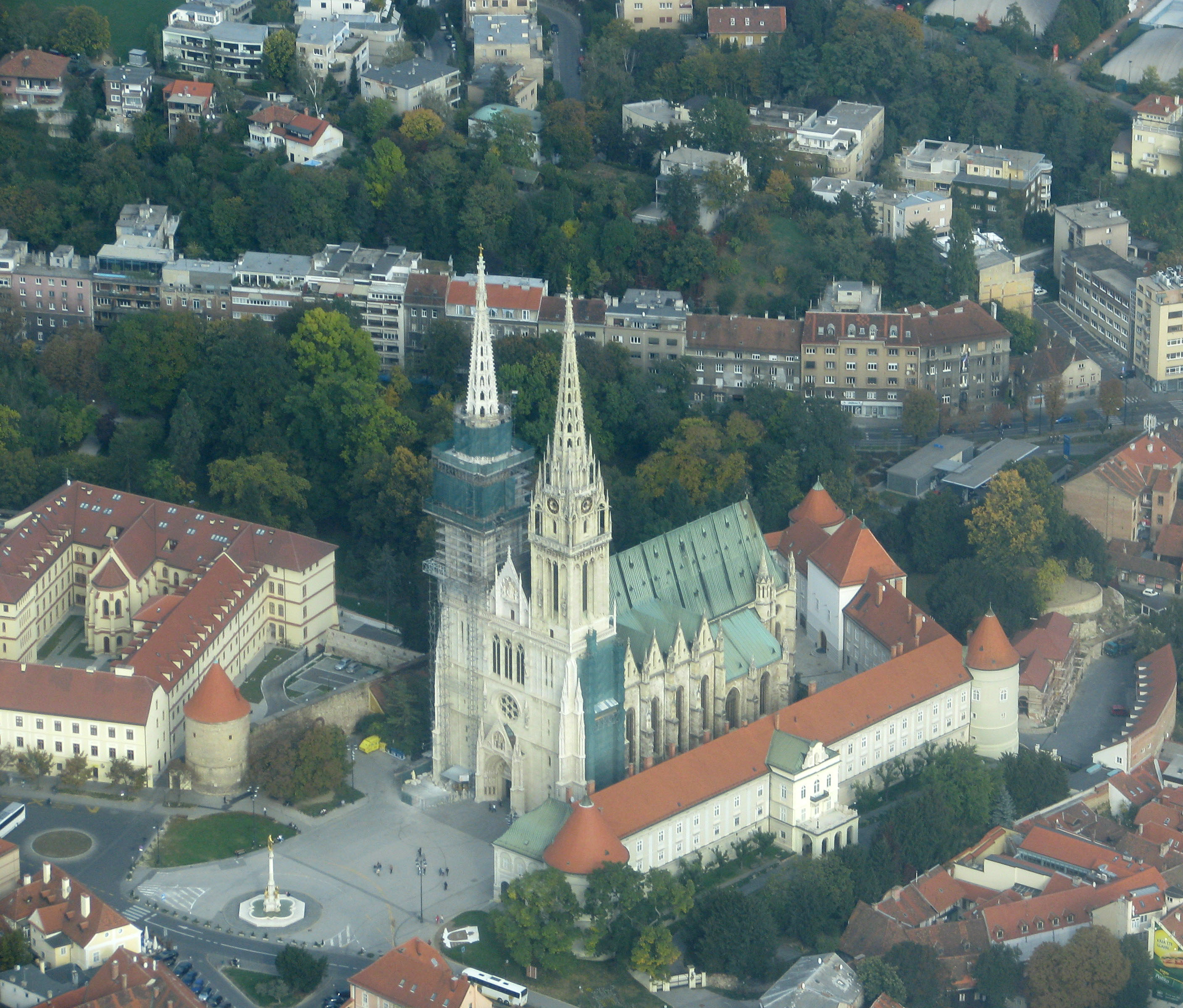 Zagreb Cathedral